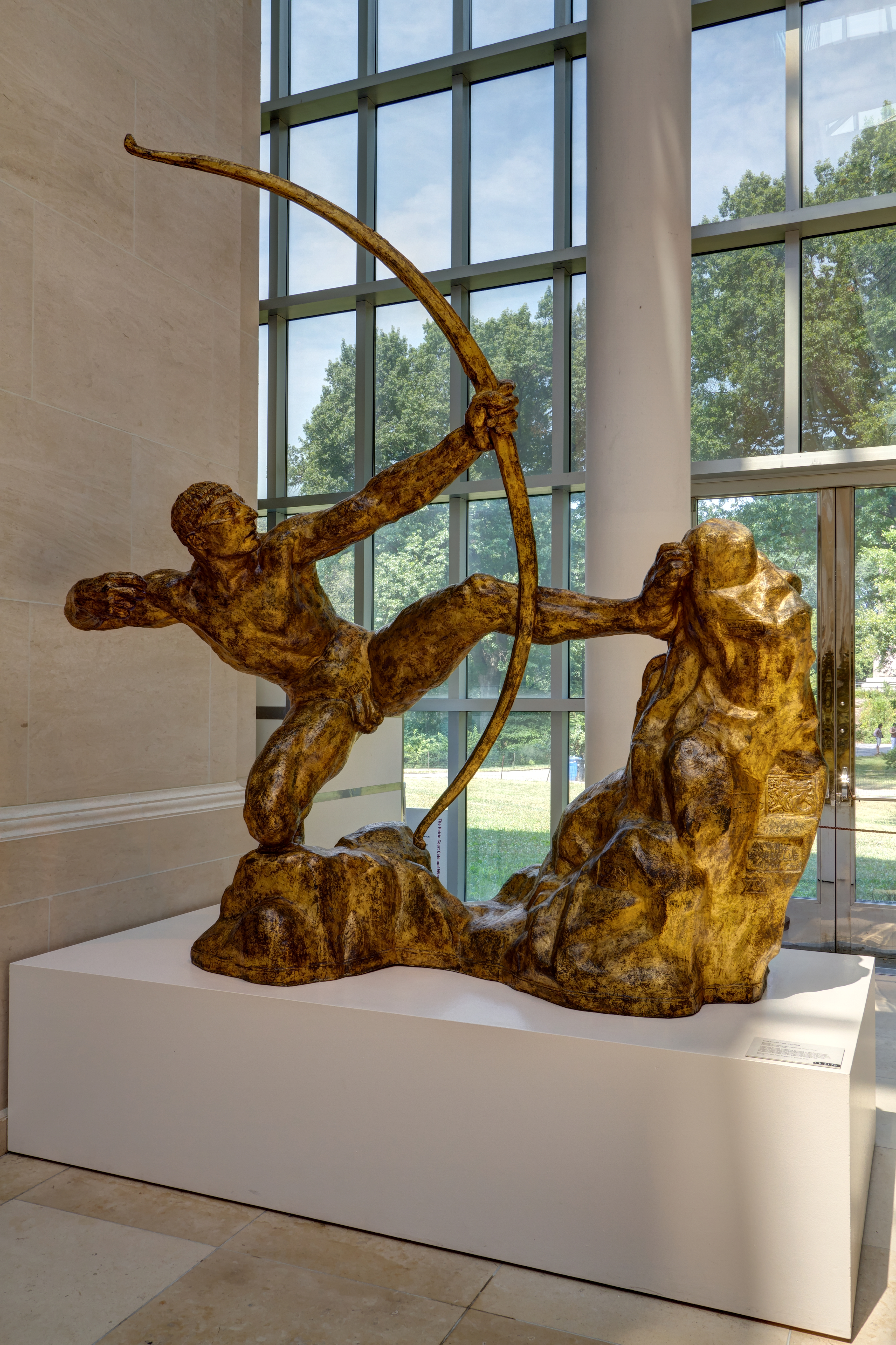 Herakles bendes his bow to shoot at the Stymphalian birds. This artwork is among the most famous from Antoine Bourdelle.